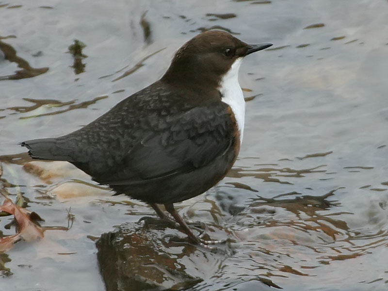 Image shows a White-throated Dipper (Cinclus cinclus).